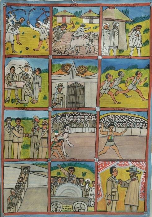 A translation of the Amharic text, from left to right and top to bottom: 1) He played the traditional hockey, genna 2) He plowed the arable land 3) The moment of farewell to his father and mother 4) He was employed by the Imperial Guard 5) When he was guarding 6) He practiced running 7) He went to Italy for a competition 8) In Italy he entered a race 9) And he won 10) He returns to his country, leaving the plane 11) And he greeted the people 12) He received a medal from the Emperor